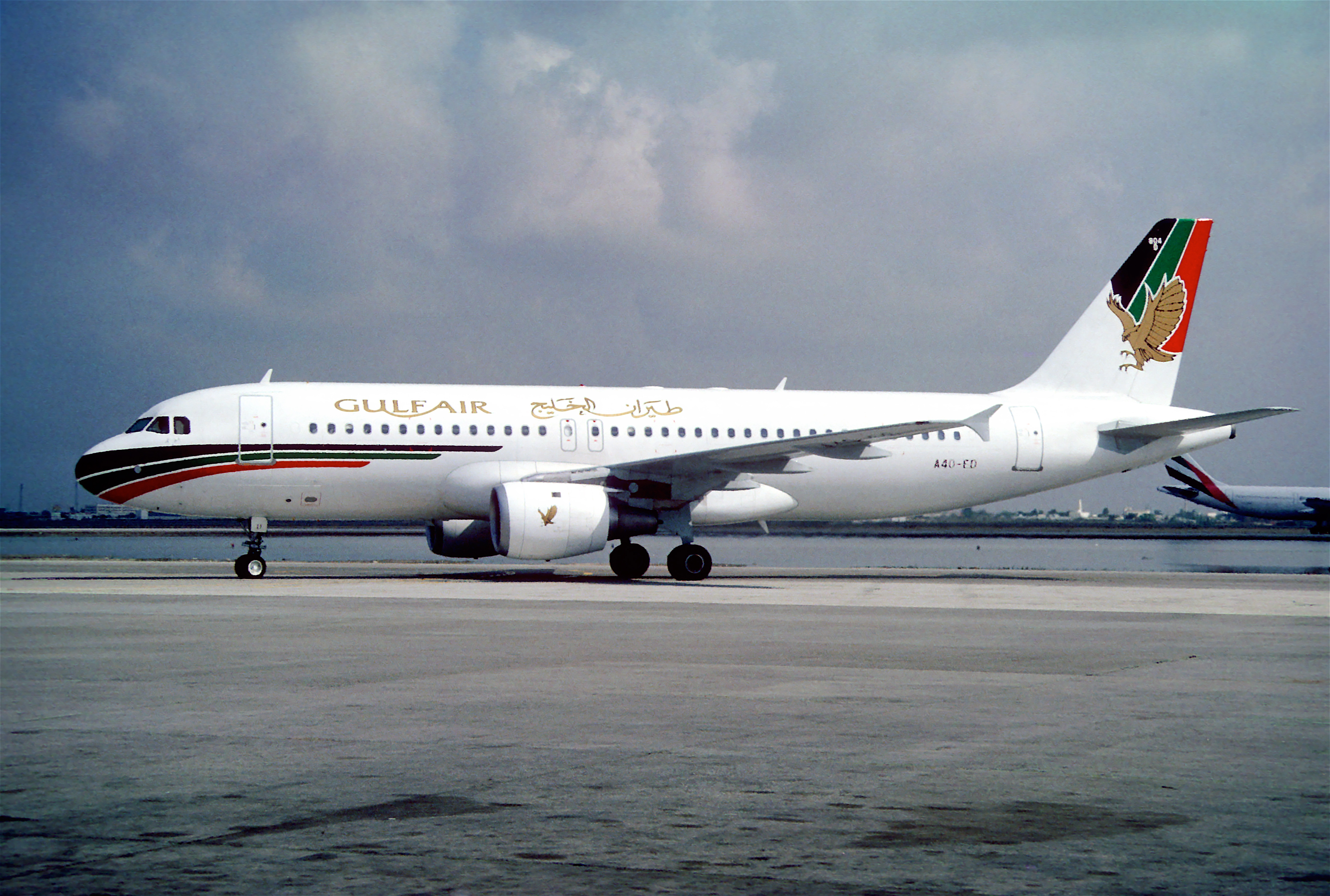 With an Emirates A300 in the back...at the time of the shot Gulf Air was still the bigger Gulf carrier... First flight: October 9, 1992... 29/12/1992 Gulf Air A4O-ED 30/04/2008 Gulf Air A9C-ED stored 02/2010 01/04/2011 Avion Express LY-VEX